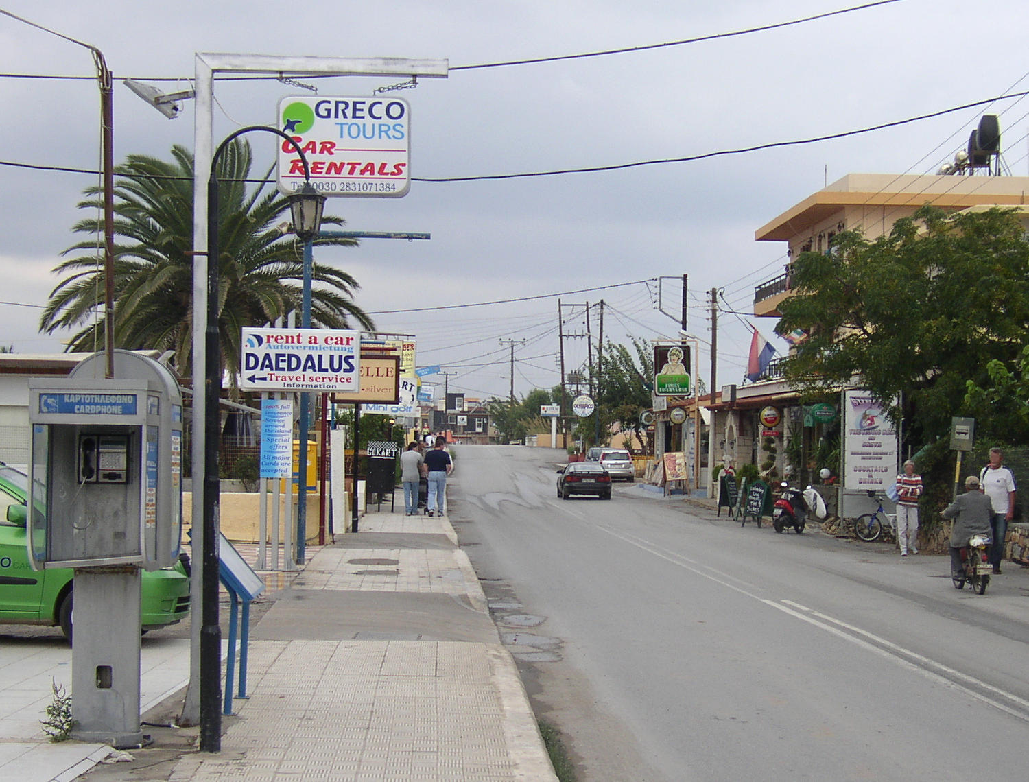 Street in Rethymno, Crete, Greece